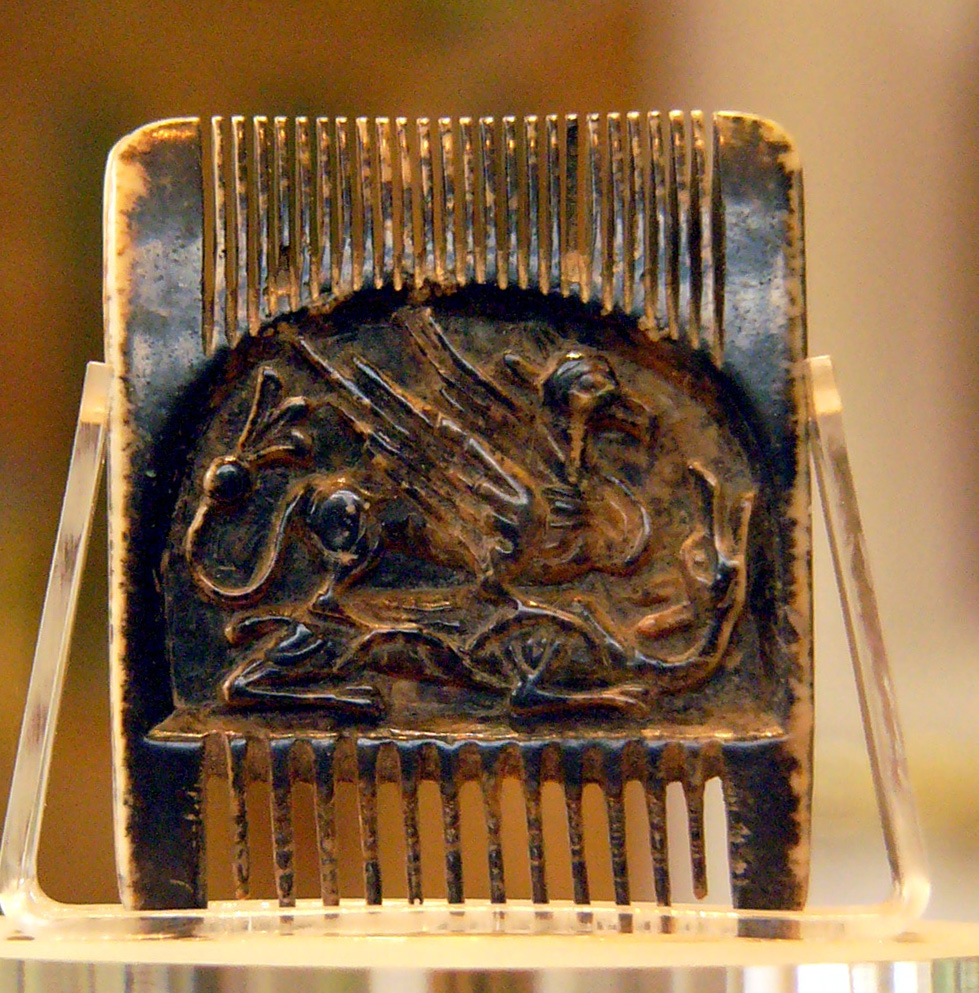 Front view of the Jedburgh Comb, a comb found in Jedburgh Abbey. The comb was carved around 1100 from walrus ivory and this side is decorated with a griffin and a dragon. The comb only about 5 cm wide by 4.34 cm long, and is made from a single piece of walrus ivory. It was probably made about 1100, but it is not known whether in England or on the Continent.